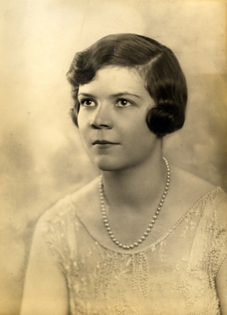 Dola Dunsmuir, mccann collection rru archives